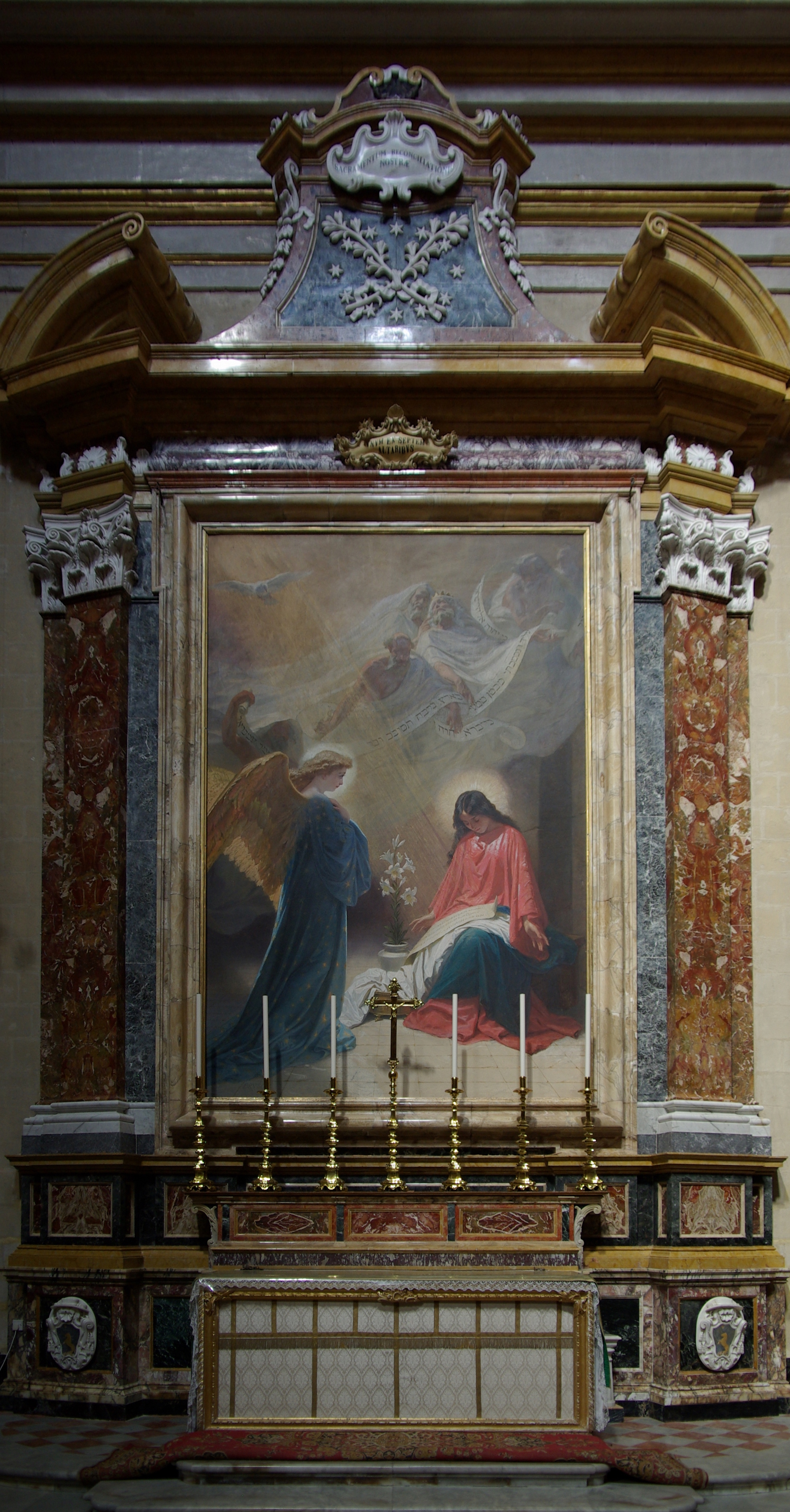 Malta, Mdina, Kathedrale St. Paul